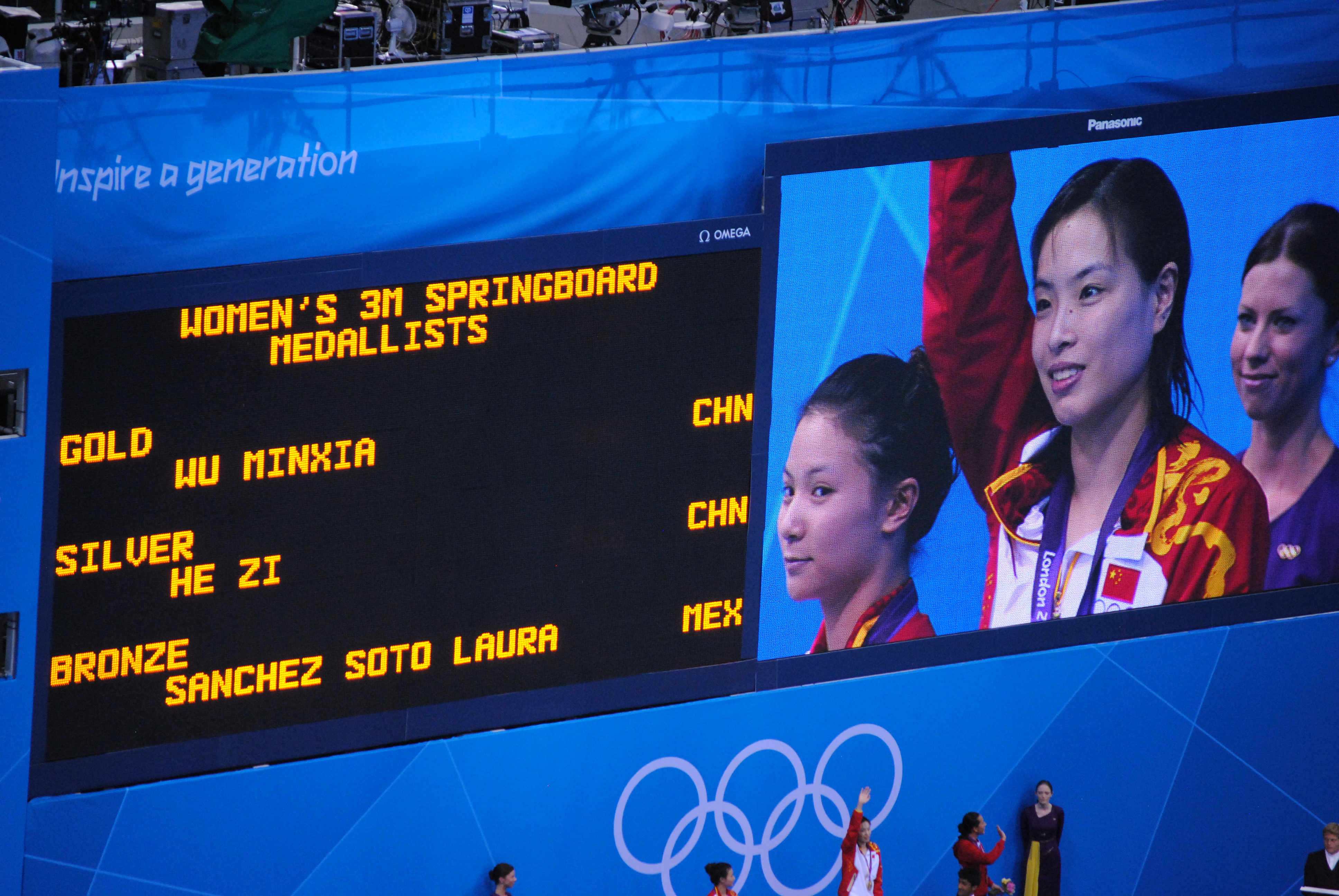 Gold Medalist - Wu Minxia (China)